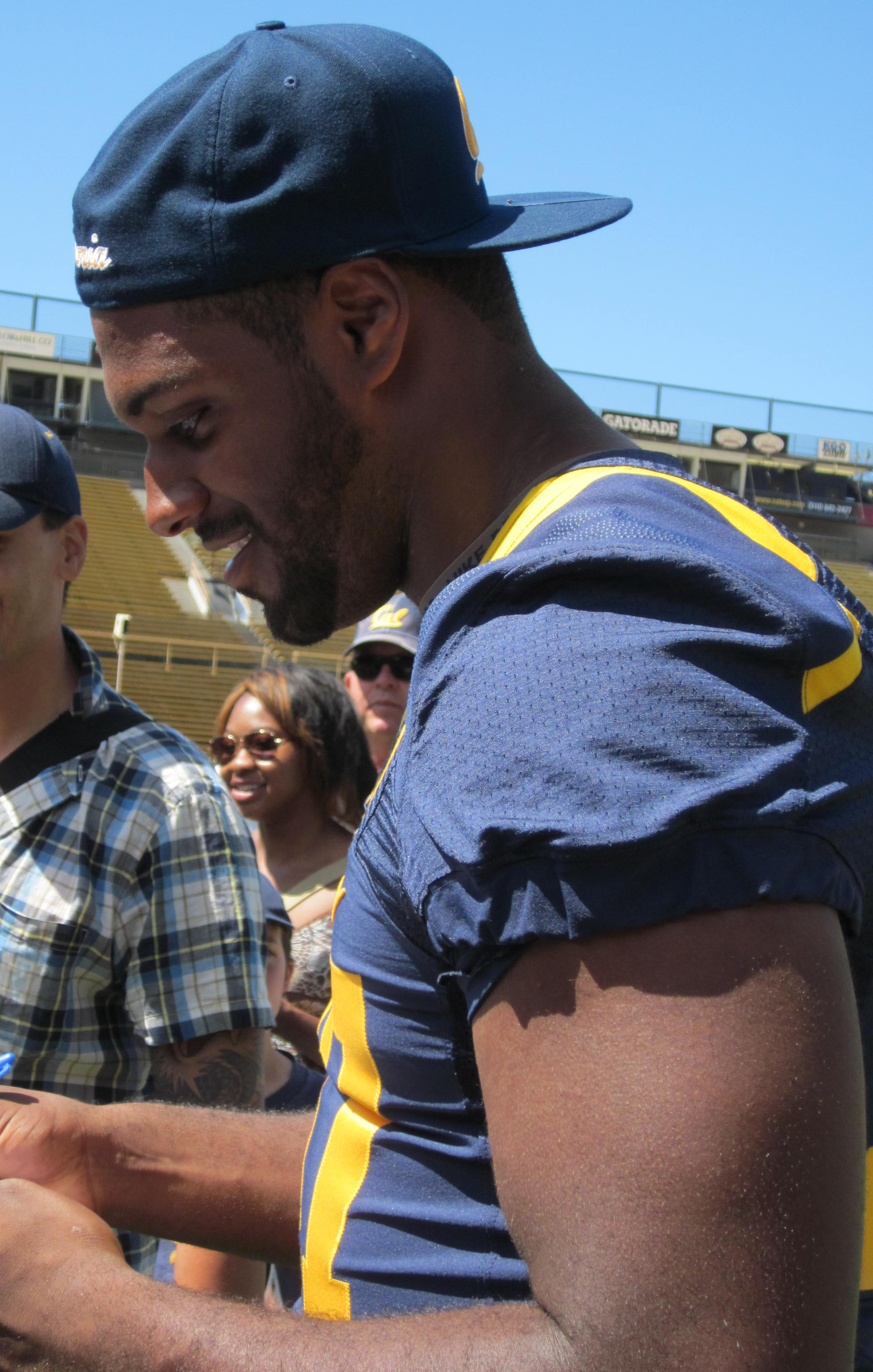 Cal defensive lineman Cameron Jordan at Fan Appreciation Day at Memorial Stadium.